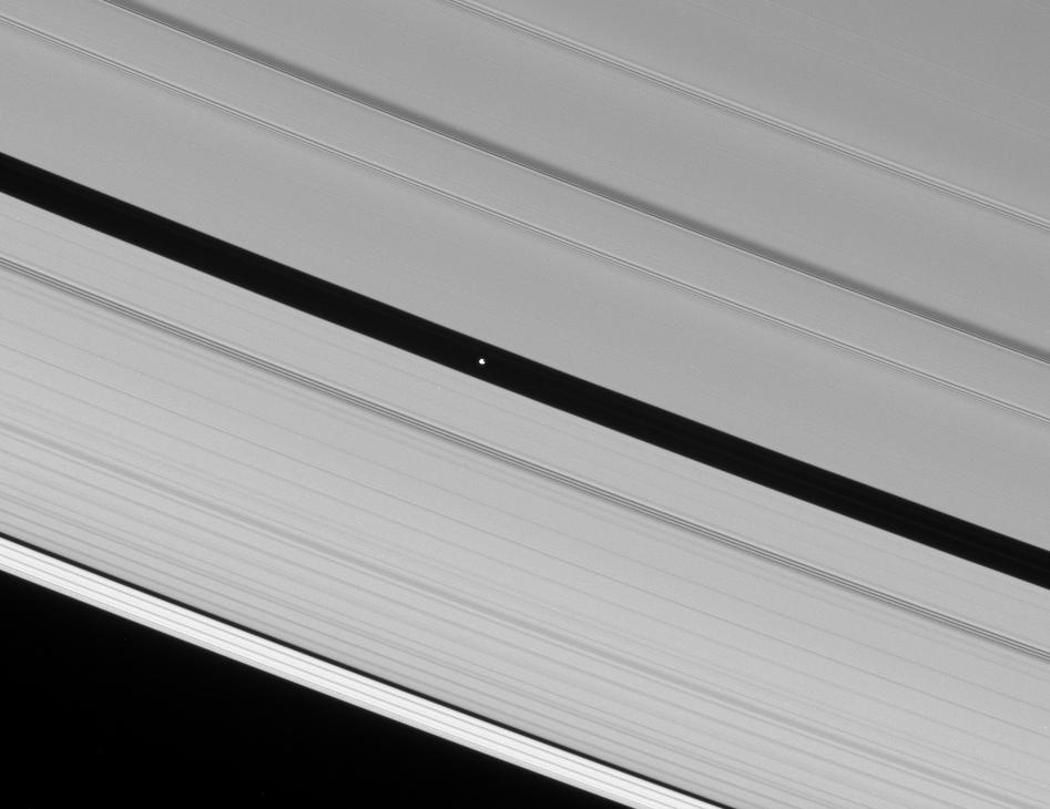 The Cassini spacecraft spies Pan speeding through the Encke Gap, its own private path around Saturn. Illumination is from the lower left here, revealing about half of Pan (26 kilometers, or 16 miles across) in sunlight.